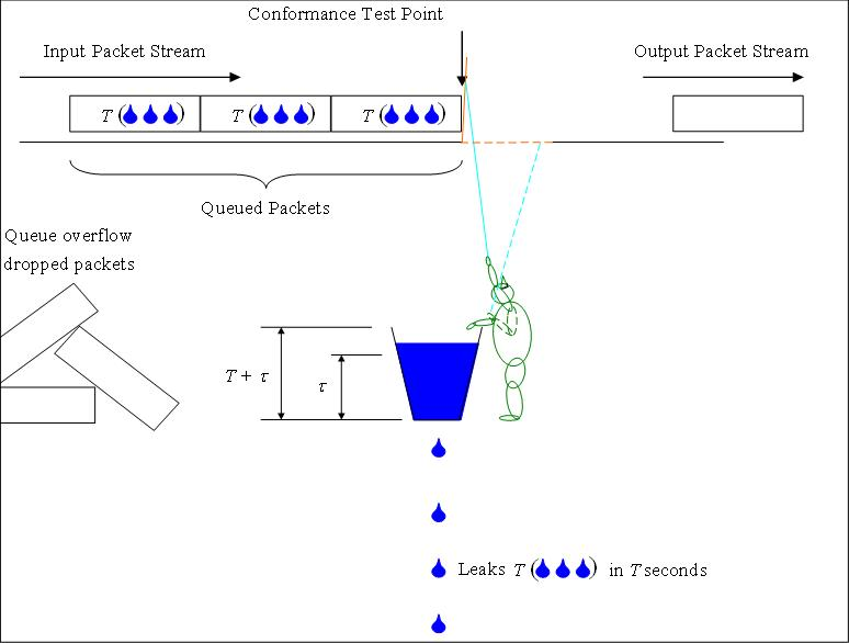 Drawing of leaky bucket as a meter used in a shaping function